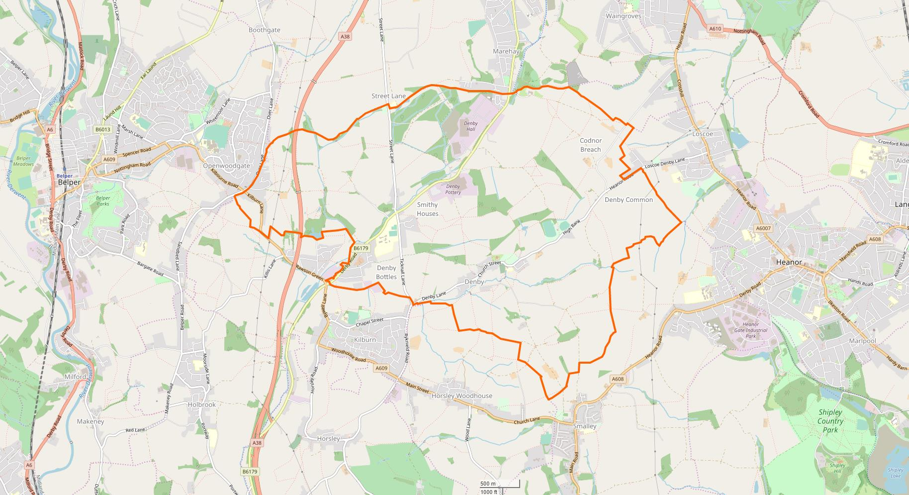 Map of Denby in Derbyshire, showing its parish boundary, and local areas.